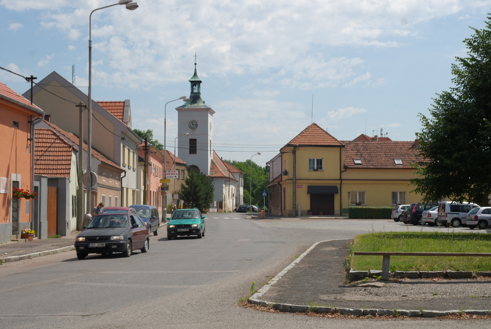 A. Dvořák square, Veltrusy.